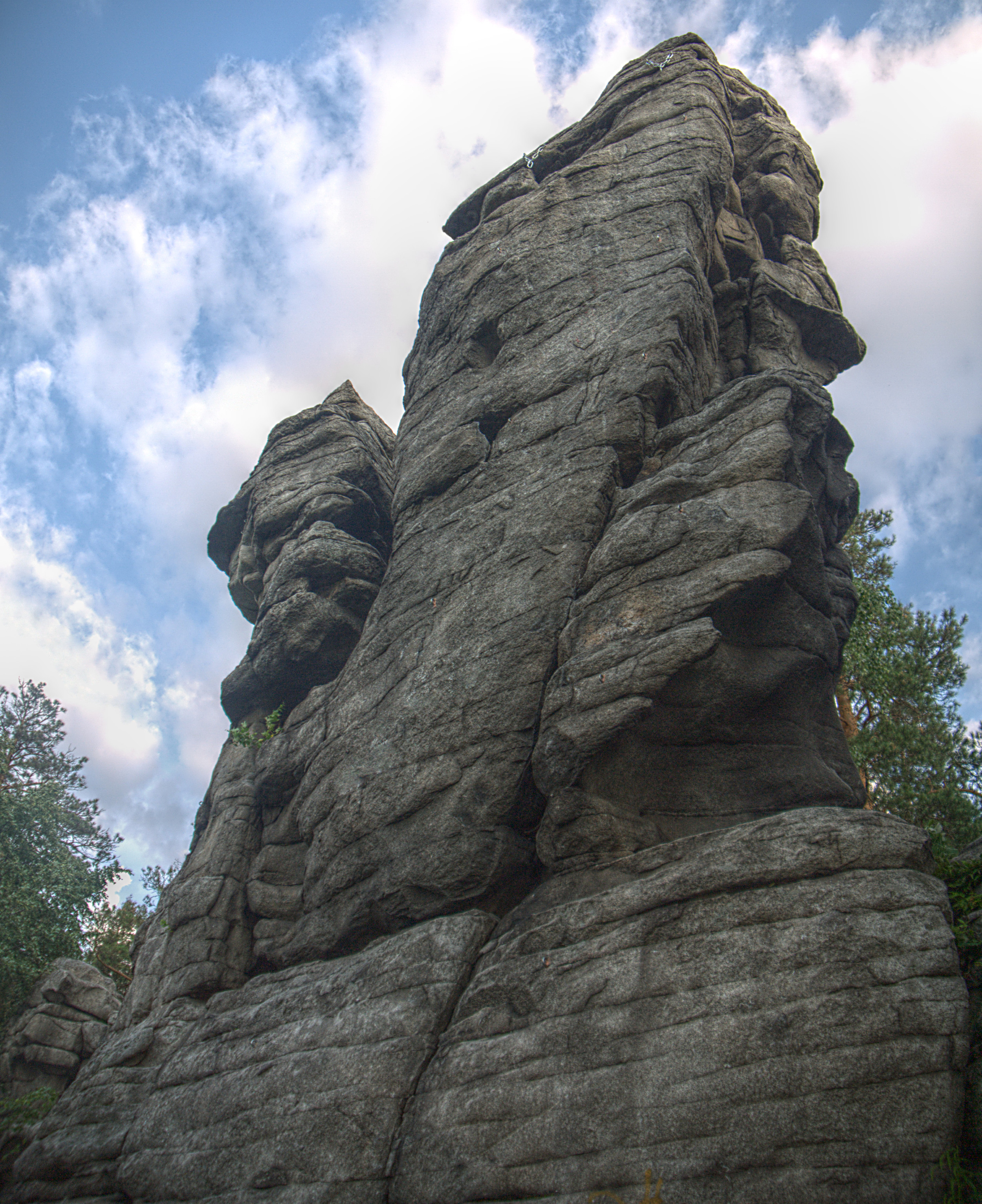 Petrogrom Rocks.